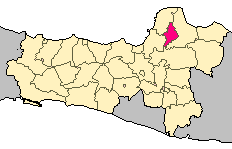 Locator map of Kudus Regency in Central Java province, Indonesia